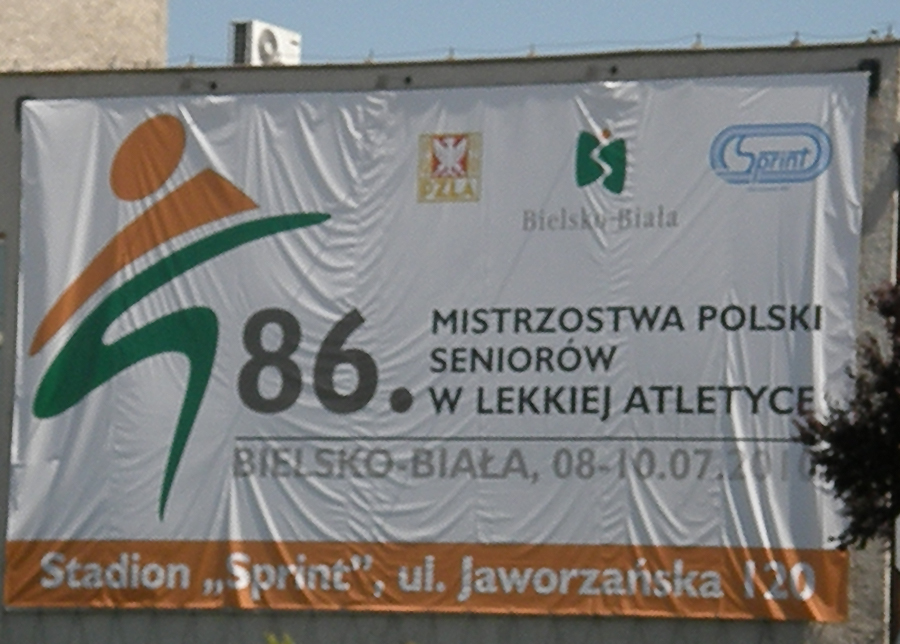 2010 Polish Championships in Athletics (Bielsko-Biała)